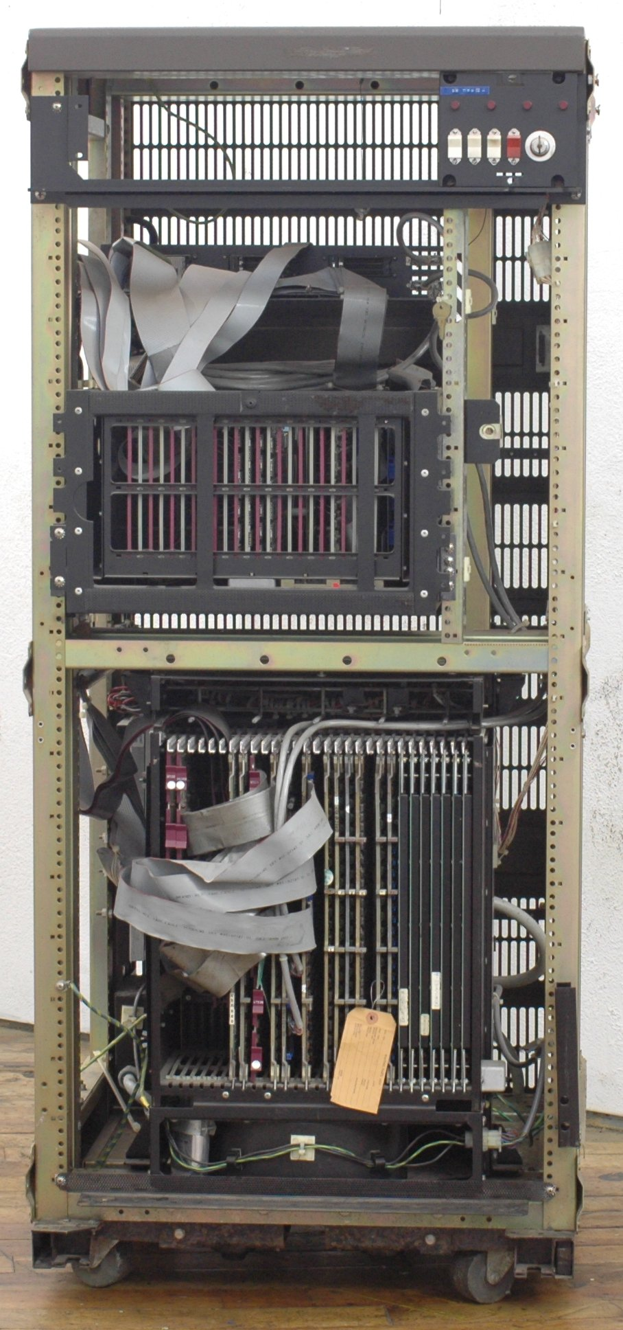 KS10 PDP-10 36-bit DEC computer, with the front door open. From the collection of the RCS/RI.